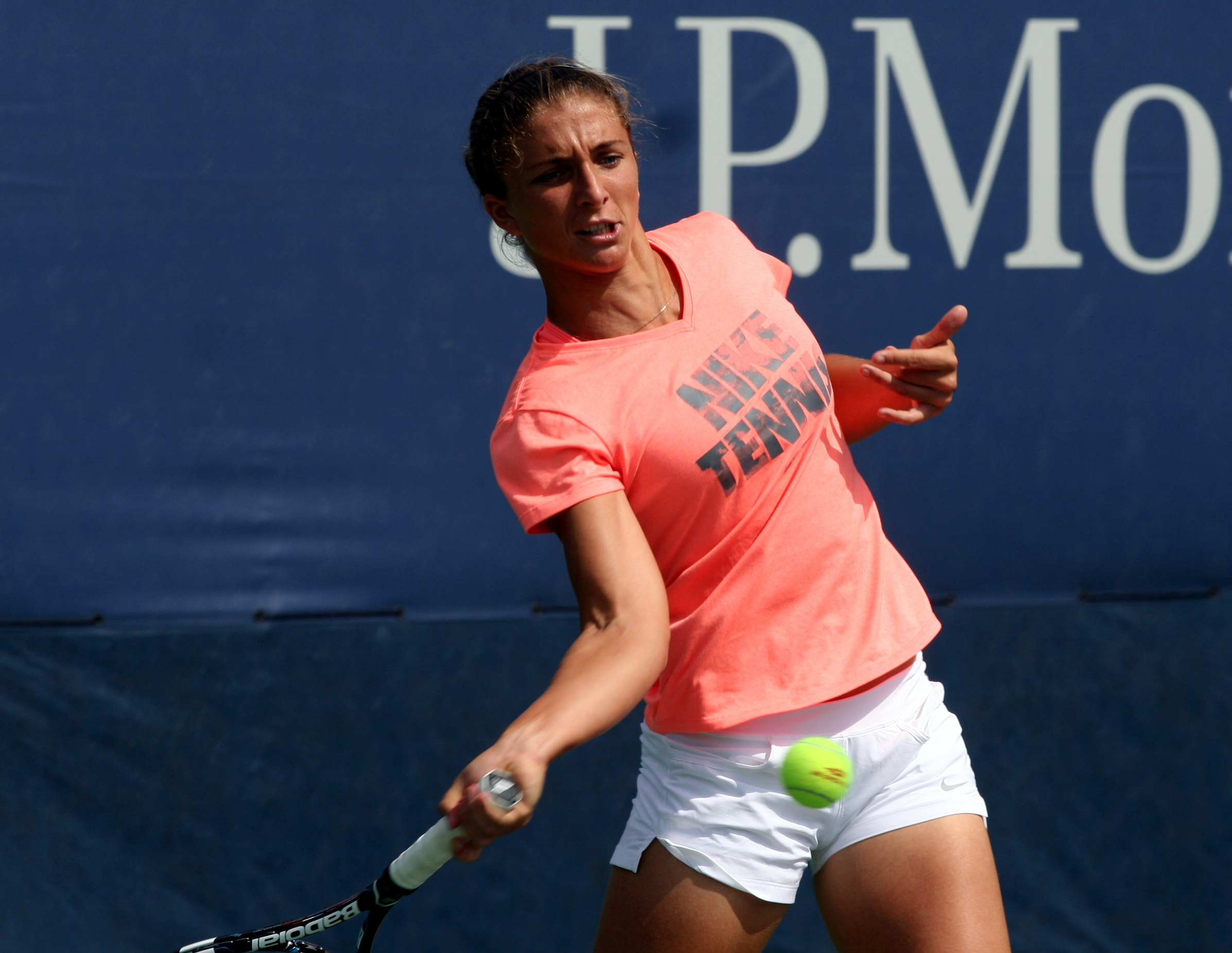 Practice Tuesday, August 27